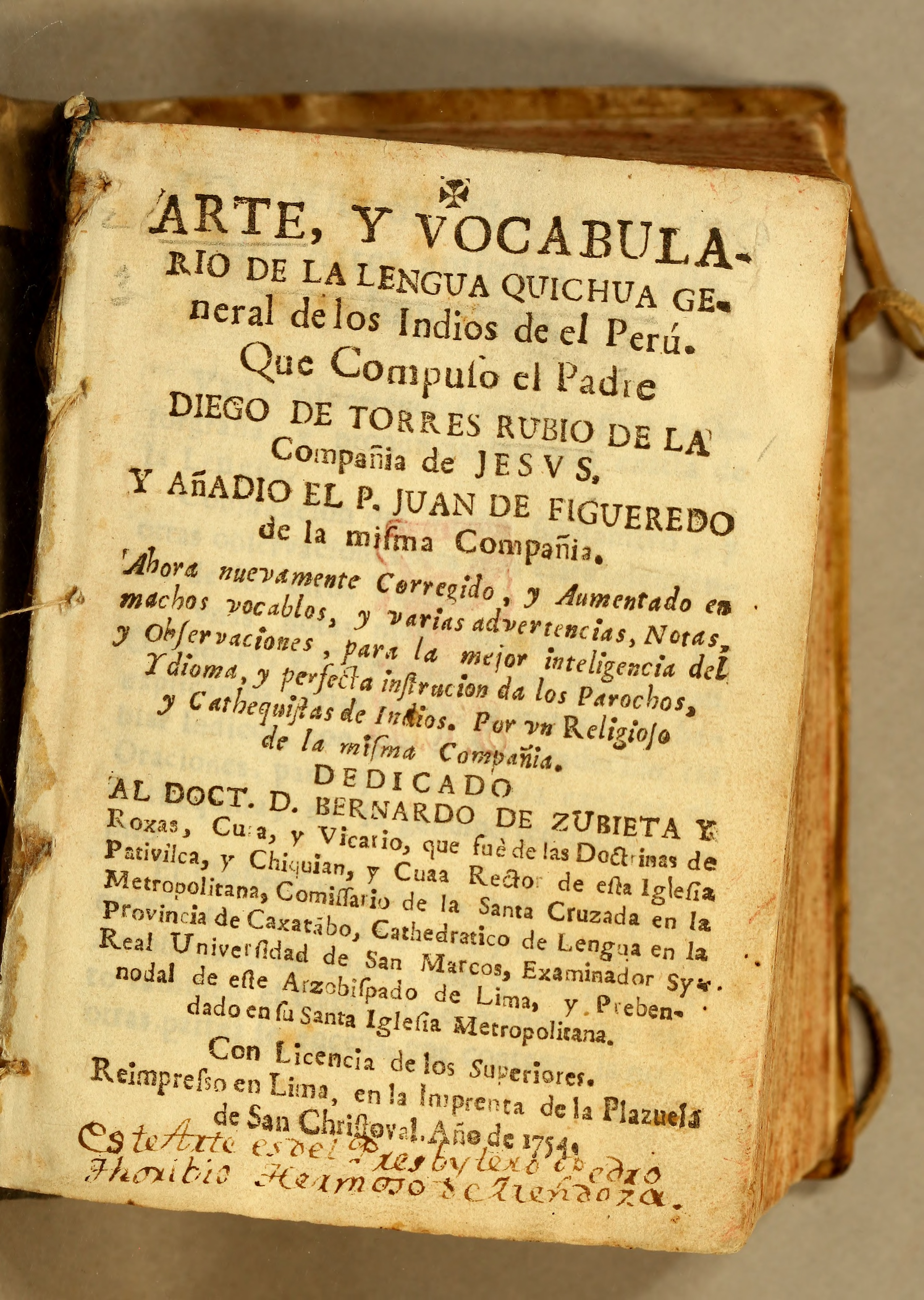 Title page of 1754 edition of Arte, y vocabulario de la lengua quichua general de los indios de el Perú by Diego de Torres Rubio